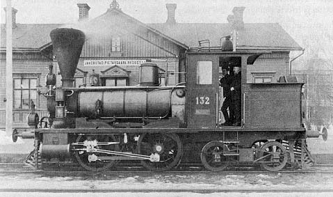 A 0-4-4T locomotive made by the Swiss_Locomotive_and_Machine_Works, Winterthur, Switzerland in 1886, photographed in Jakobstad, Finland. It was used on the Finnish State RR in 1886–1932. The engine shown is preserved at the Finnish RR Museum in Hyvinkää, Finland. Photo is from 1915 publication, thus PD.